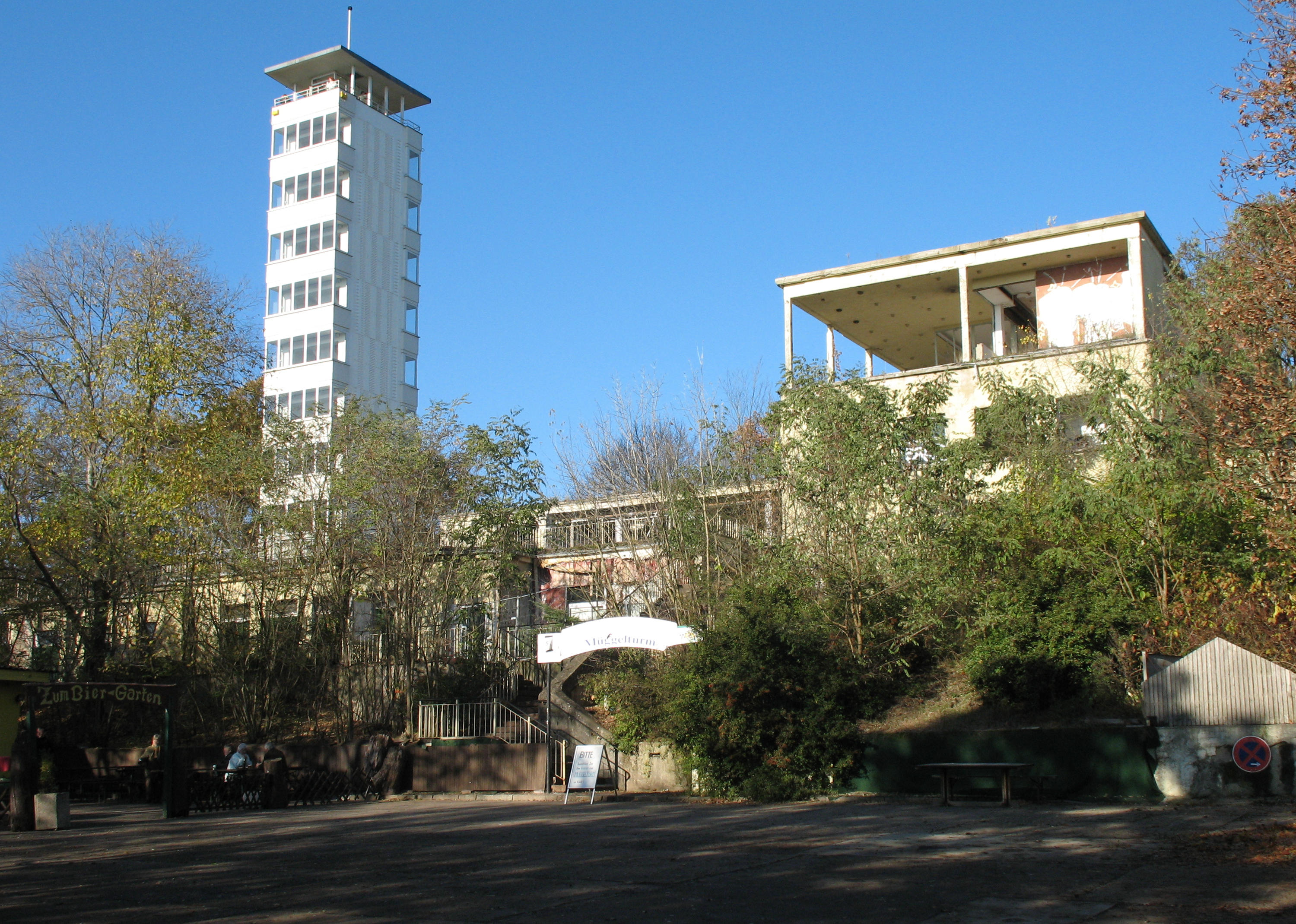 “Müggel Tower” in Berlin-Köpenick, Germany